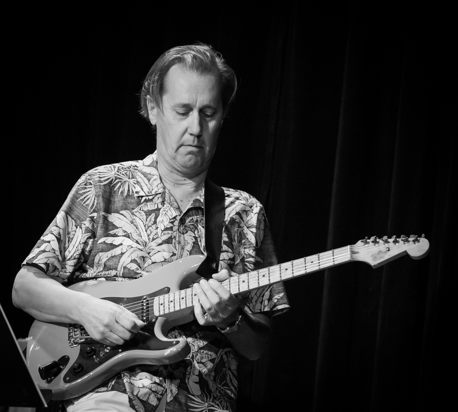 Knut Værnes performs with Cutting Edge at the stage of Nasjonal Jazzscene Victoria. The concert was part of the Oslo Jazz Festival in Norway and took place on 17. August 2016. Lineup: Rune Klakegg (keyboard) Morten Halle (tenor saxophone) Knut Værnes (guitar) Edvard Askeland (bass guitar) Frank Jakobsen (drums) Stein Inge Brækhus (drums)